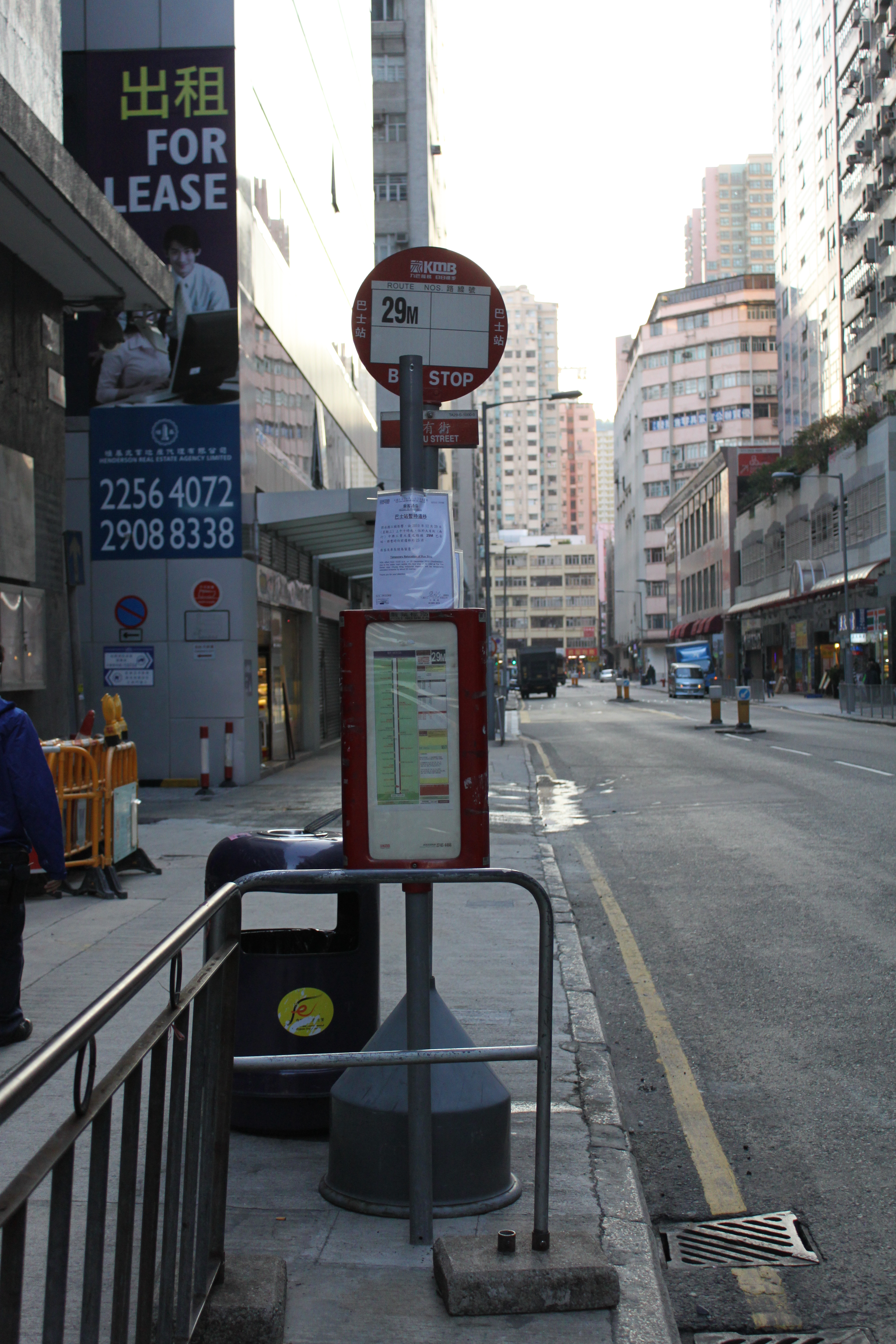 KMB 29M san po kong bus stop